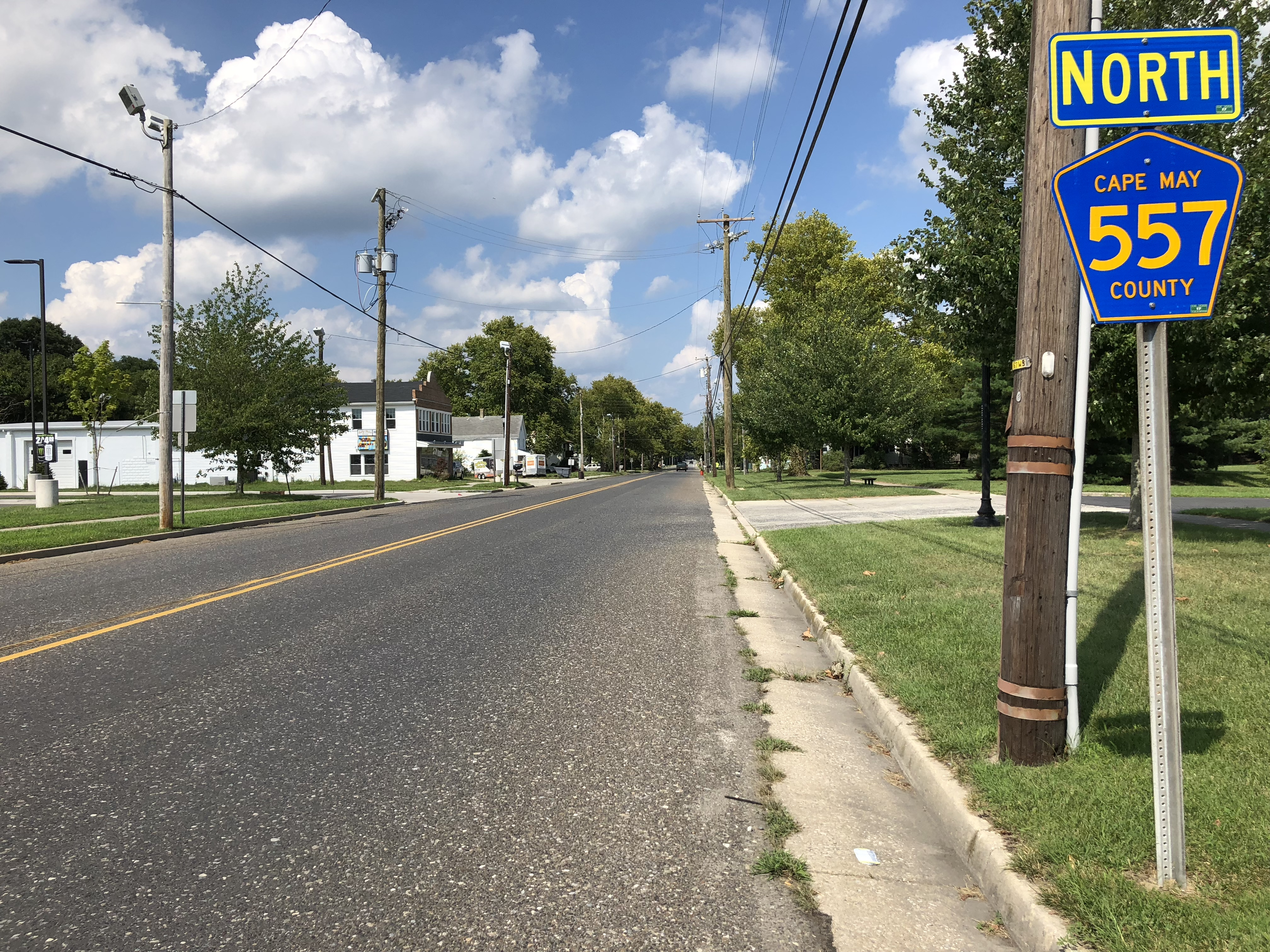 View north along Cape May County Route 557 (Washington Avenue) just north of Cape May County Route 550 (Dehirsch Avenue) in Woodbine, Cape May County, New Jersey